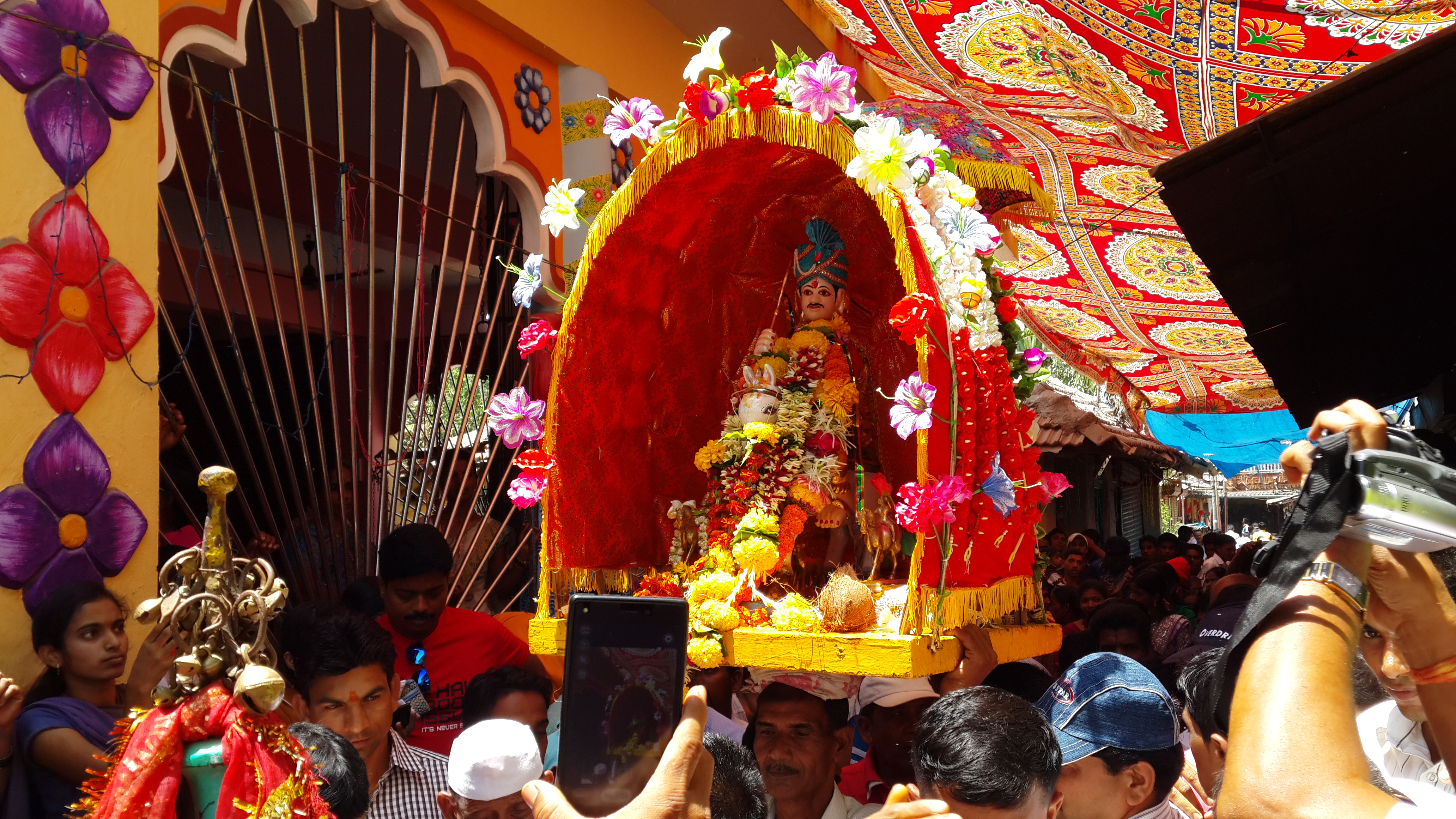 From the sea shore of arabian sea,and from Pen taluka 'Vadhav' is at a distance of 8 kilometre.As per every year this year too Shree bahiri Dev's yatra was held.Lakhs of devotees attended the yatra and worshipded Lord Bahiri.Main attraction of this yatra is that the devotees hit cactus(perkut) with thorns on their body.Vow made by any devotee is fullfiled by lord Bahiri,according to their individual proclivities and beliefs.The day before Chaitra Pournima Shree Bahiri Dev's yatra was held.